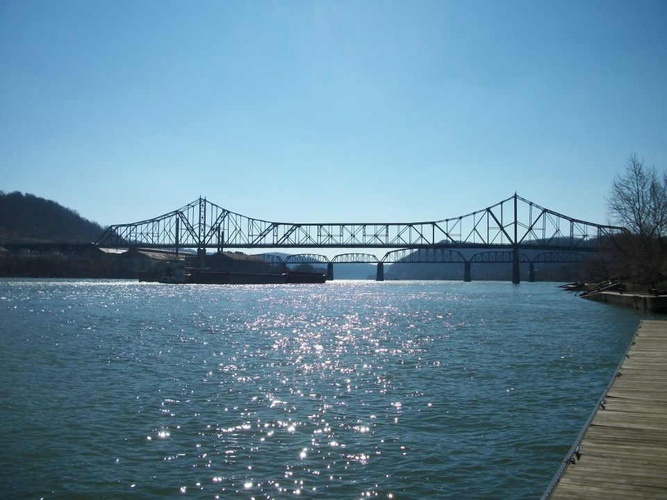 This is a picture taken on the Ohio river looking south from Bellaire, Ohio.